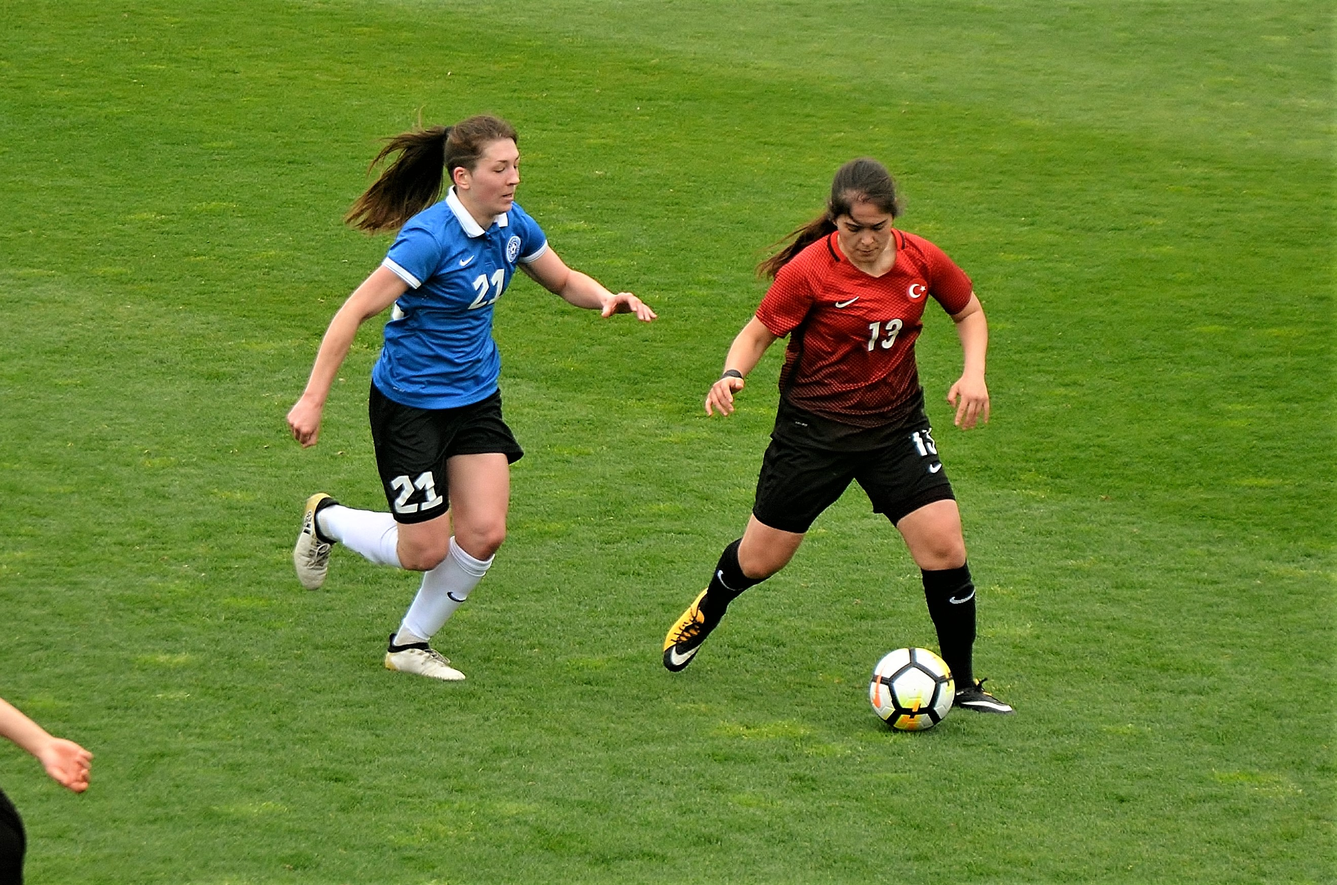 Busem Şeker (red(black) of Turkey women's national and Vlada Kubassova (blue/black) of Estonia in the friendly match at TFF Riva Facility on 7 April 2018.